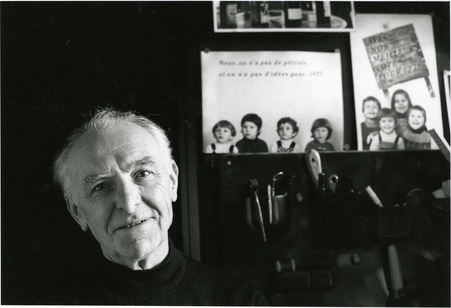 French photographer Robert Doisneau photographed by Bracha L. Ettinger in his studio in Montrouge, 1992 All uses of this picture must attribute it to Bracha L. Ettinger, under the CC-BY-SA 2.5 License